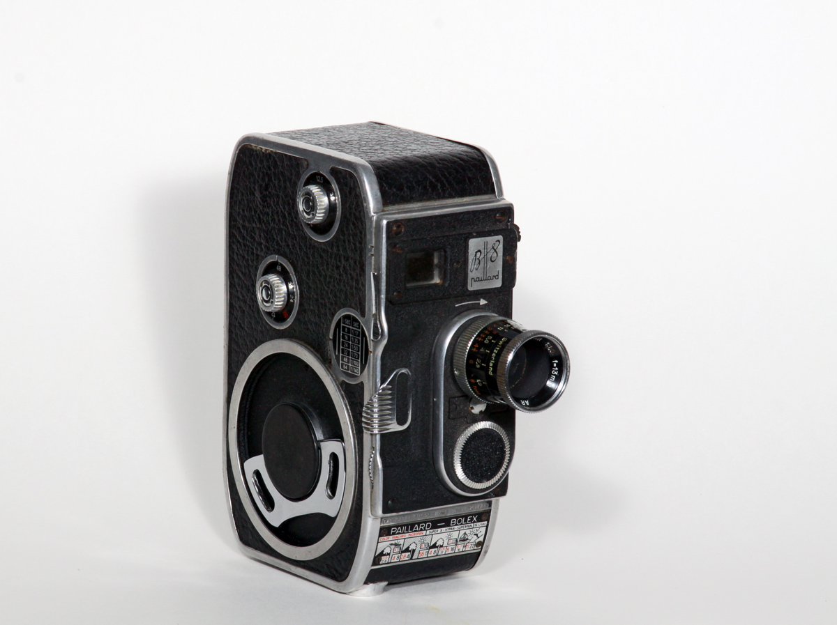 Bolex B8 movie camera 8mm.